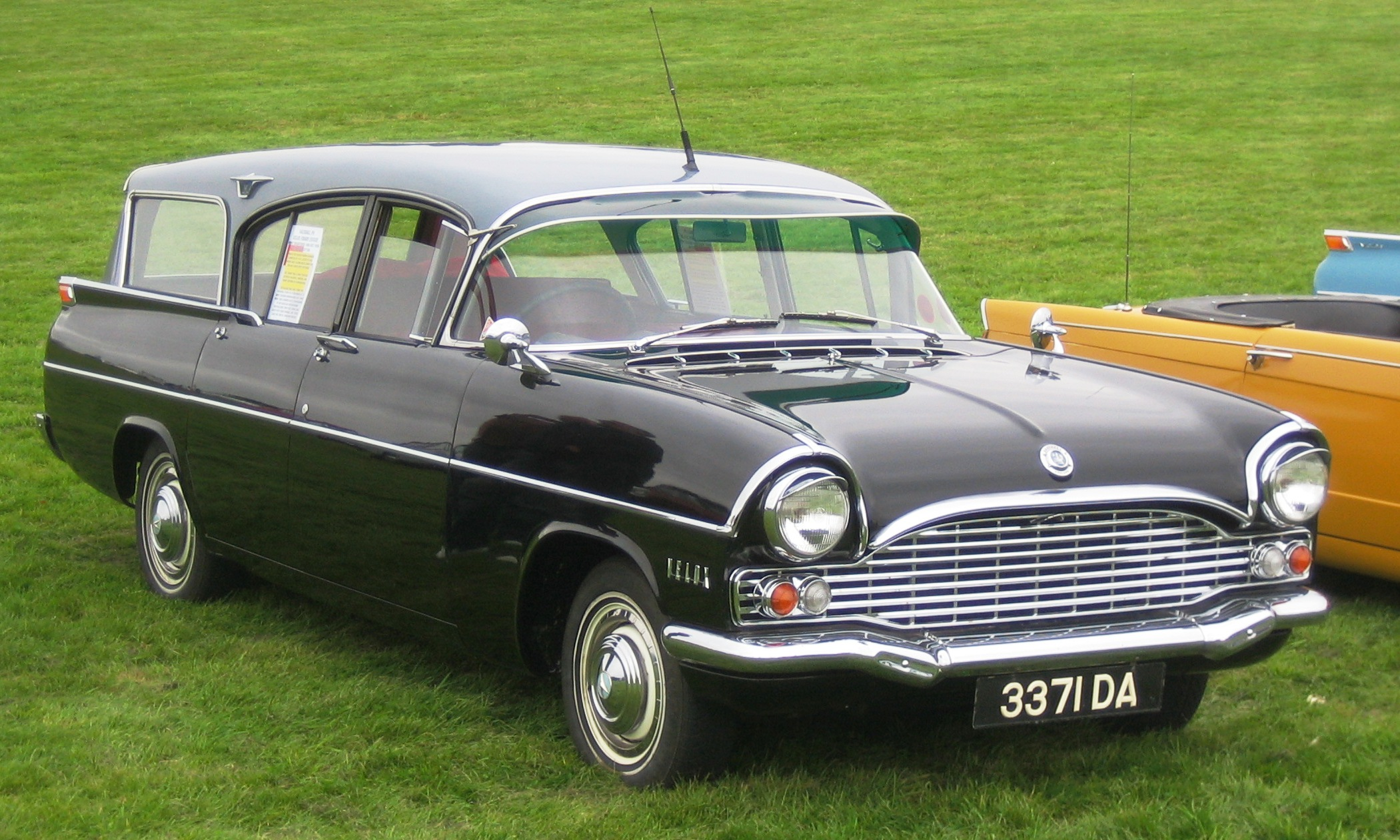 Vauxhall Velox PA estate / wagon at Classic Car Show in Hertfordshire